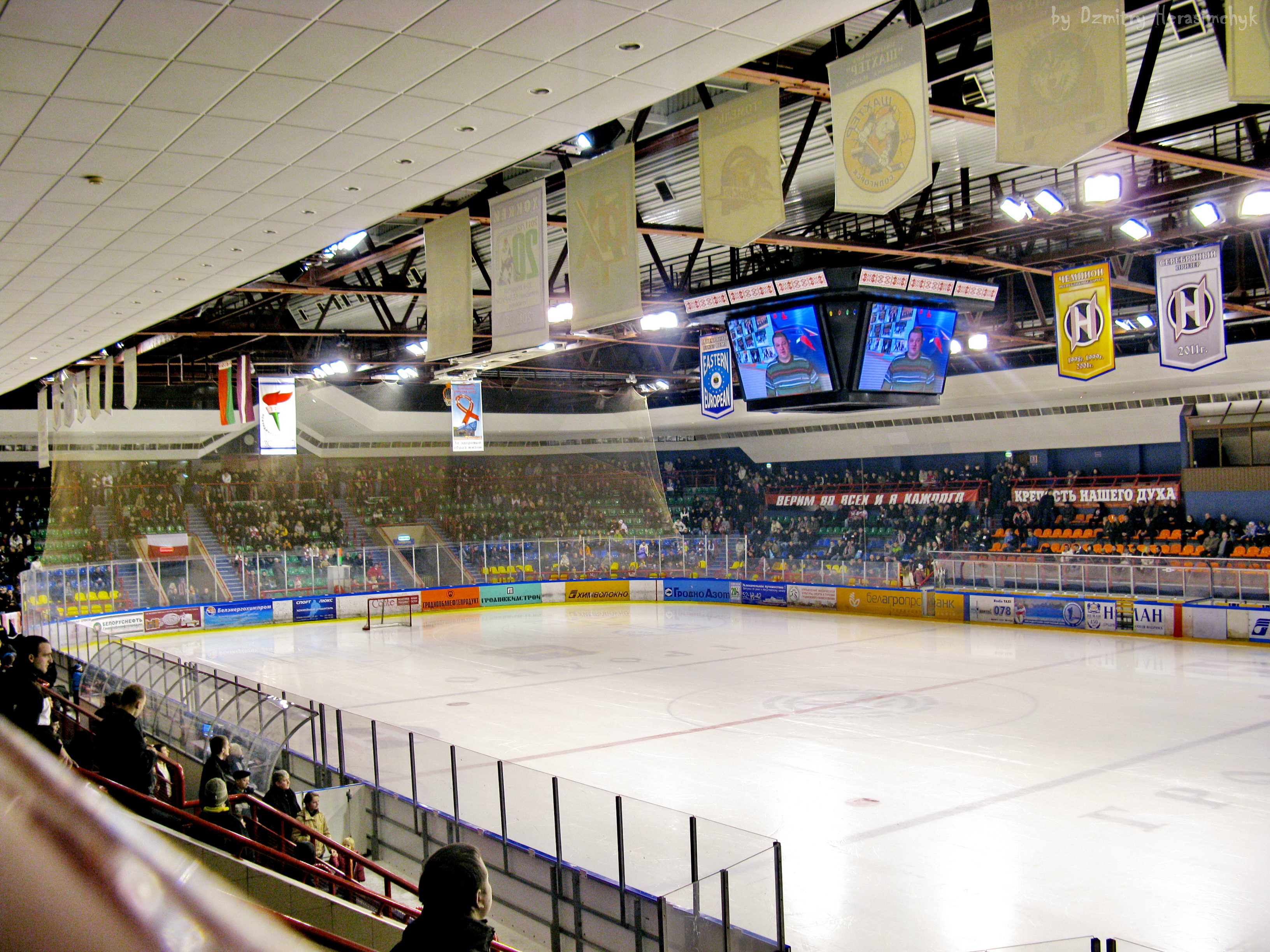 Panoramic view of the Grodno Ice Sports Palace